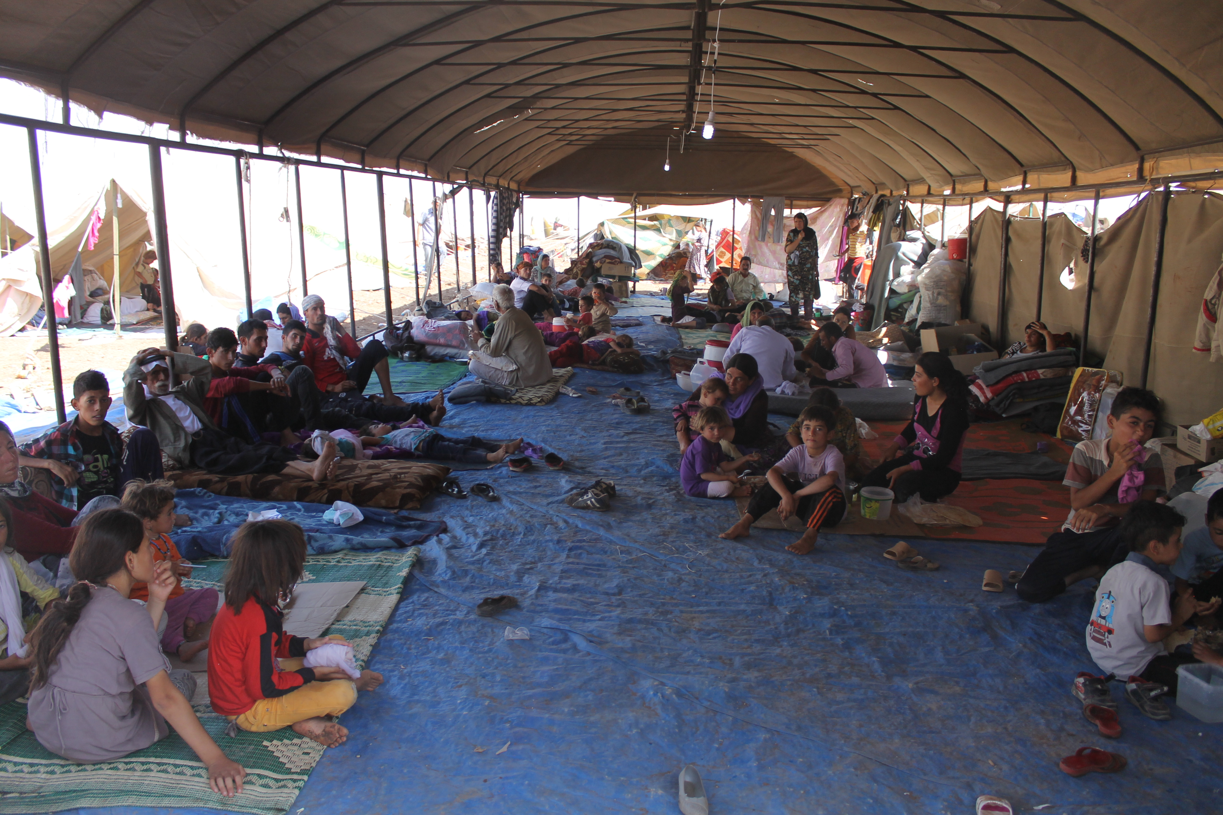 Some of the 12,000 Iraqi Yazidi refugees that have arrived at Newroz camp in Al-Hassakah province, north eastern Syria after fleeing Islamic State militants. The refugees had walked up to 60km in searing temperatures through the Sinjar mountains and many had suffered severe dehydration. The International Rescue Committee is providing medical care at the camp as well as distributing blankets, soap, underwear and solar powered lights and mobile phone chargers. Read more on this story: Latest updates on the UK government’s response to the Iraq crisis: Picture: Rachel Unkovic/International Rescue Committee